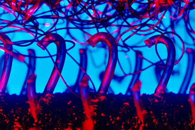 Velcro-like hook-and-loop fastener photographed using a low power microscope, (under coloured lighting).